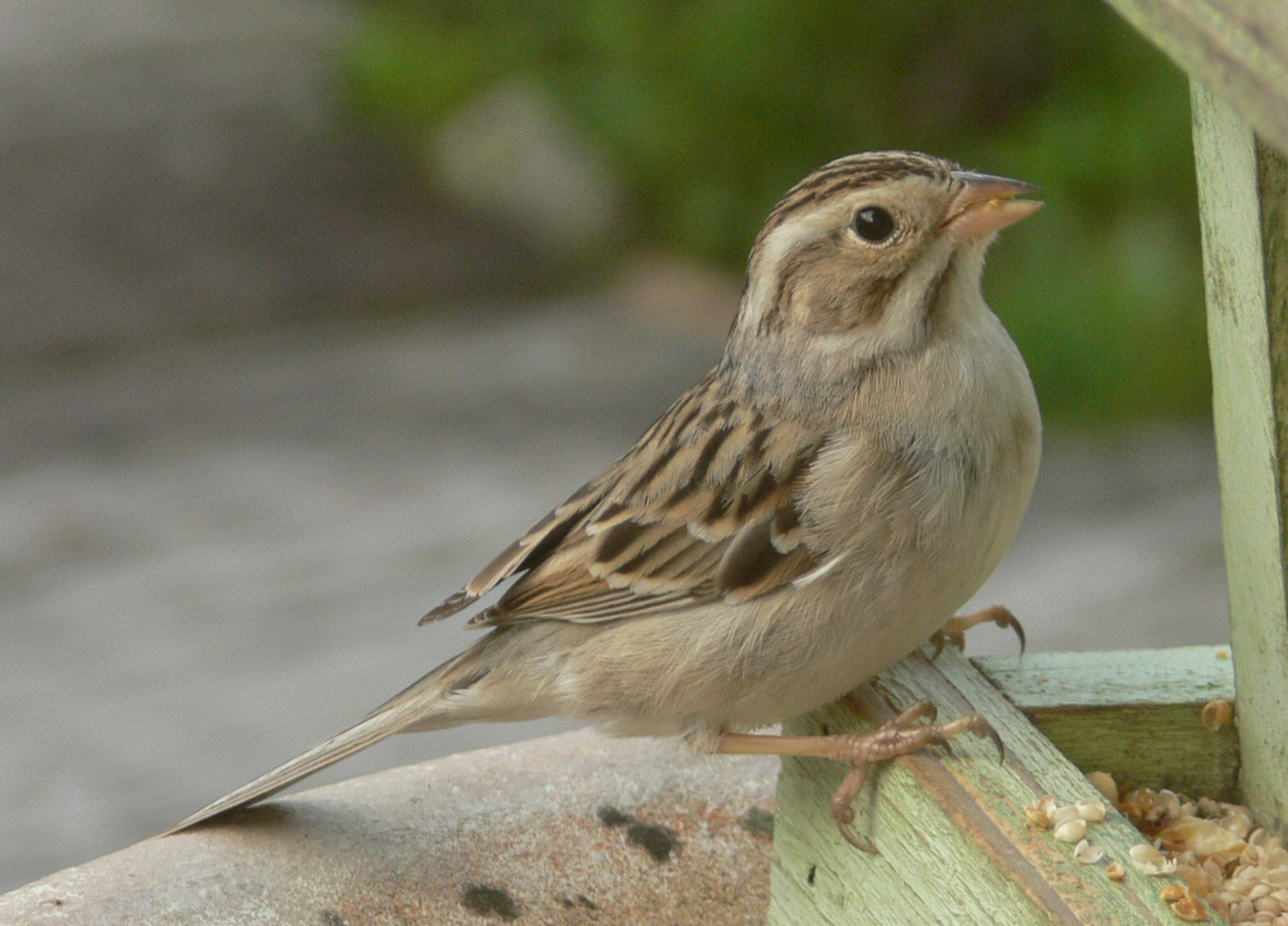 Spizella pallida, San Luis Obispo, California